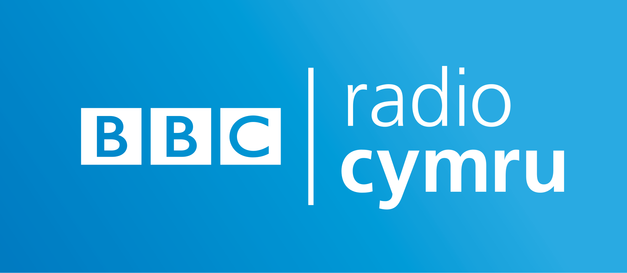 Logo of BBC Radio Cymru